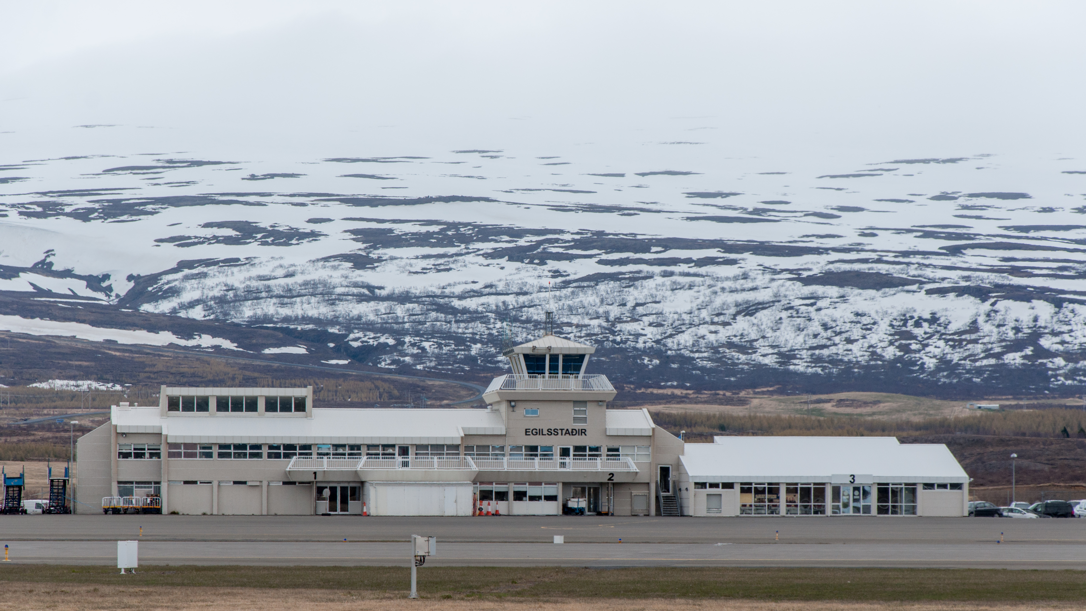 Iceland, Egilsstaðir Airport, just along the ringroad